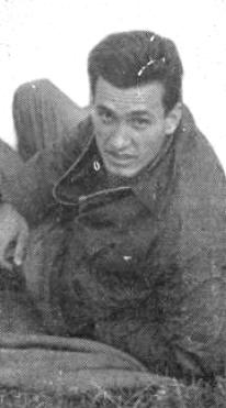 Jože Brodnik (born 26 April 1936 in Šmarje pri Jelšah), Slovenian decathlete and engineer